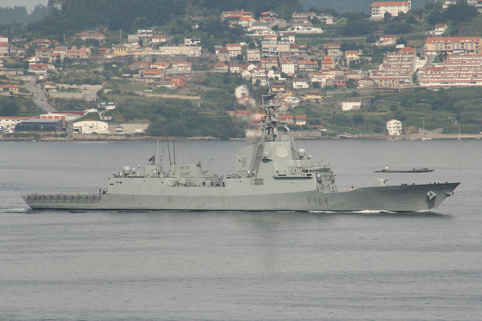 Naval review of the Spanish Navy held on June 2, 2017 in the Pontevedra Estuary on the occasion of the 300th anniversary of the Royal Company of Guardiamarinas, origin of the current Naval Military Academy of Marín. In the picture, Méndez Núñez F-104 frigate.